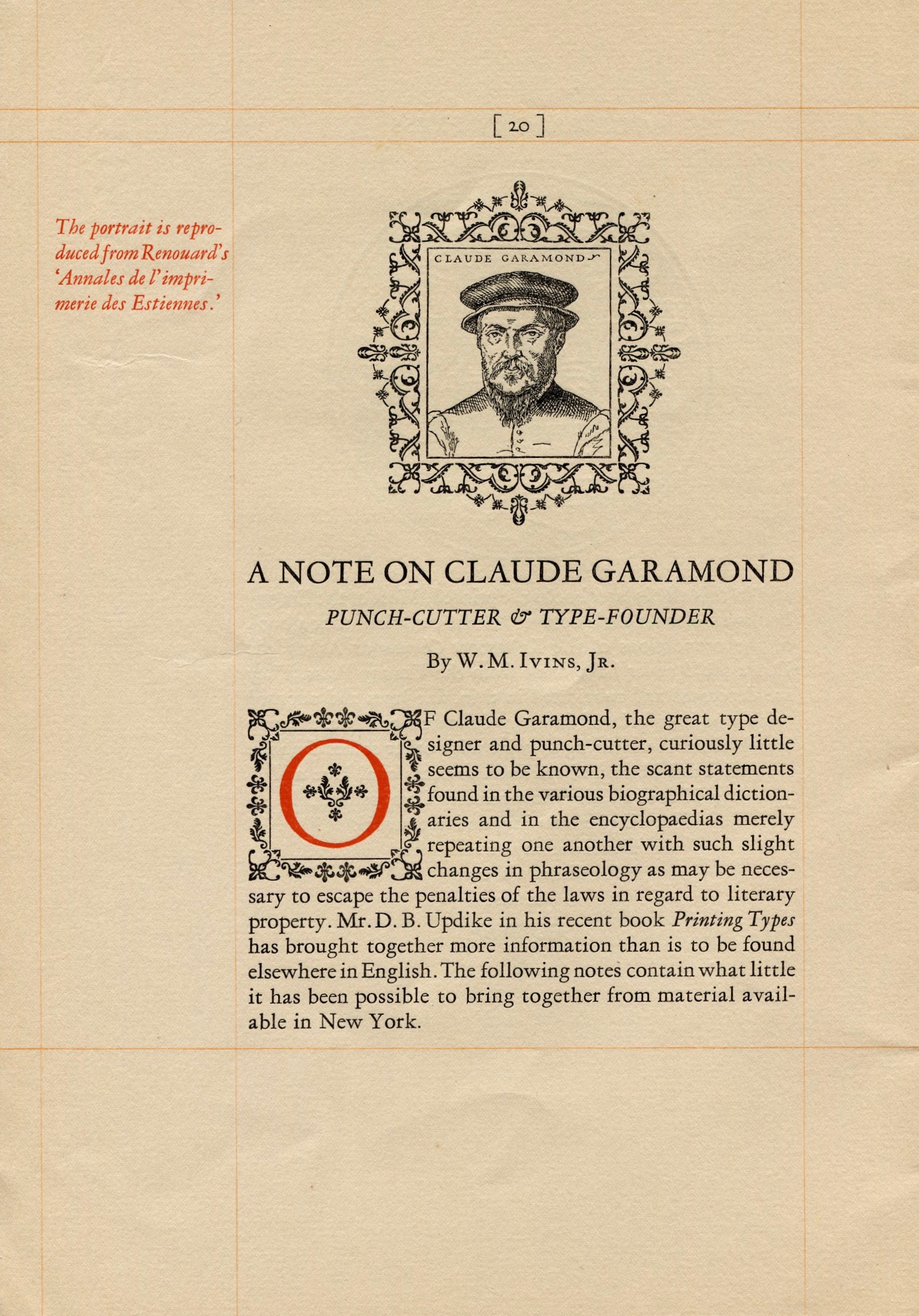 Specimen of Monotype's new Garamont font.